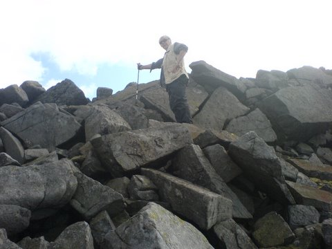 Scree slope on the west flank of Cross Fell, known as "The Screes", and described as such on the relevant Ordnance Survey map.